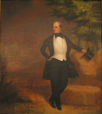 American jurist John McNairy (1762–1837)